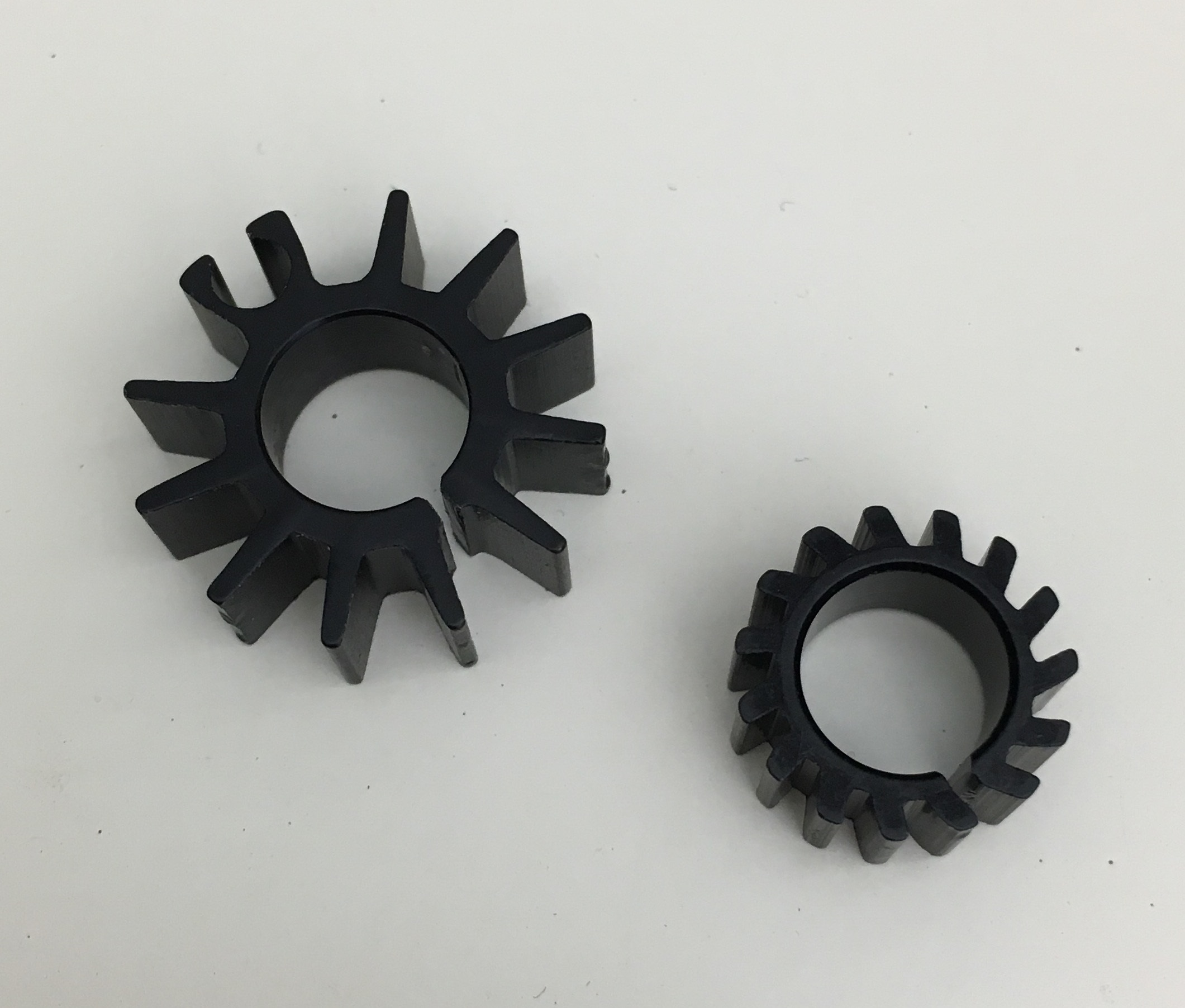 Pair of gear shaped heatsinks for TO-5 package transistors